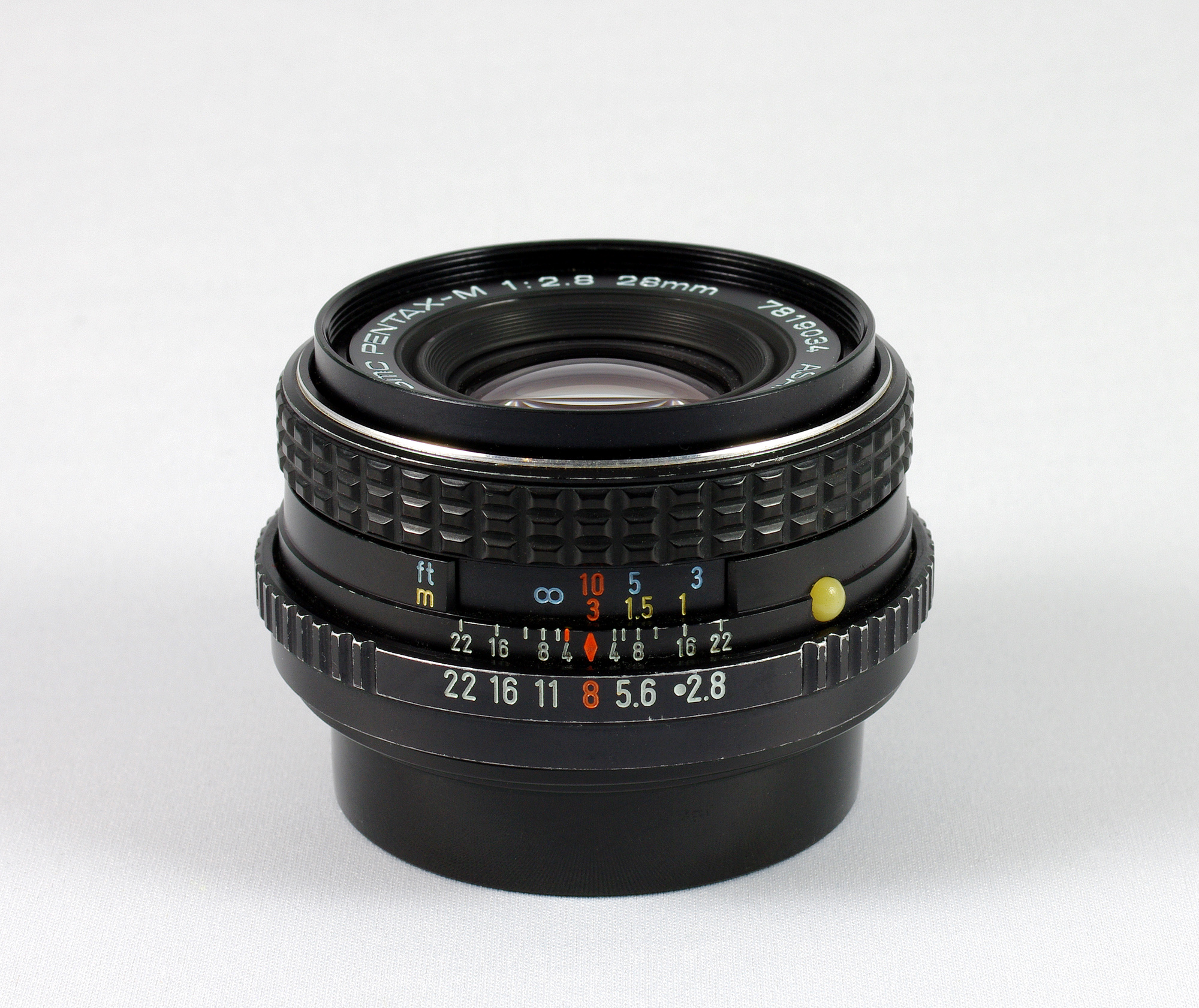 The wide angle lens smc Pentax-M 1:2.8 / 28mm (elder version), built between the late 1970s and early 80s. Suitable for Pentax K-mount (purely mechanical/manual).